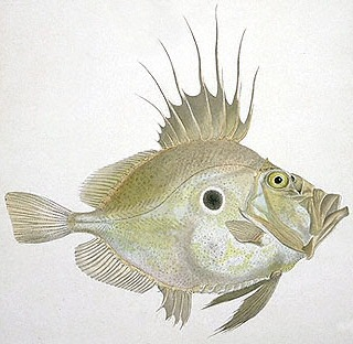 John Dory, illustrated by William MacGillivray